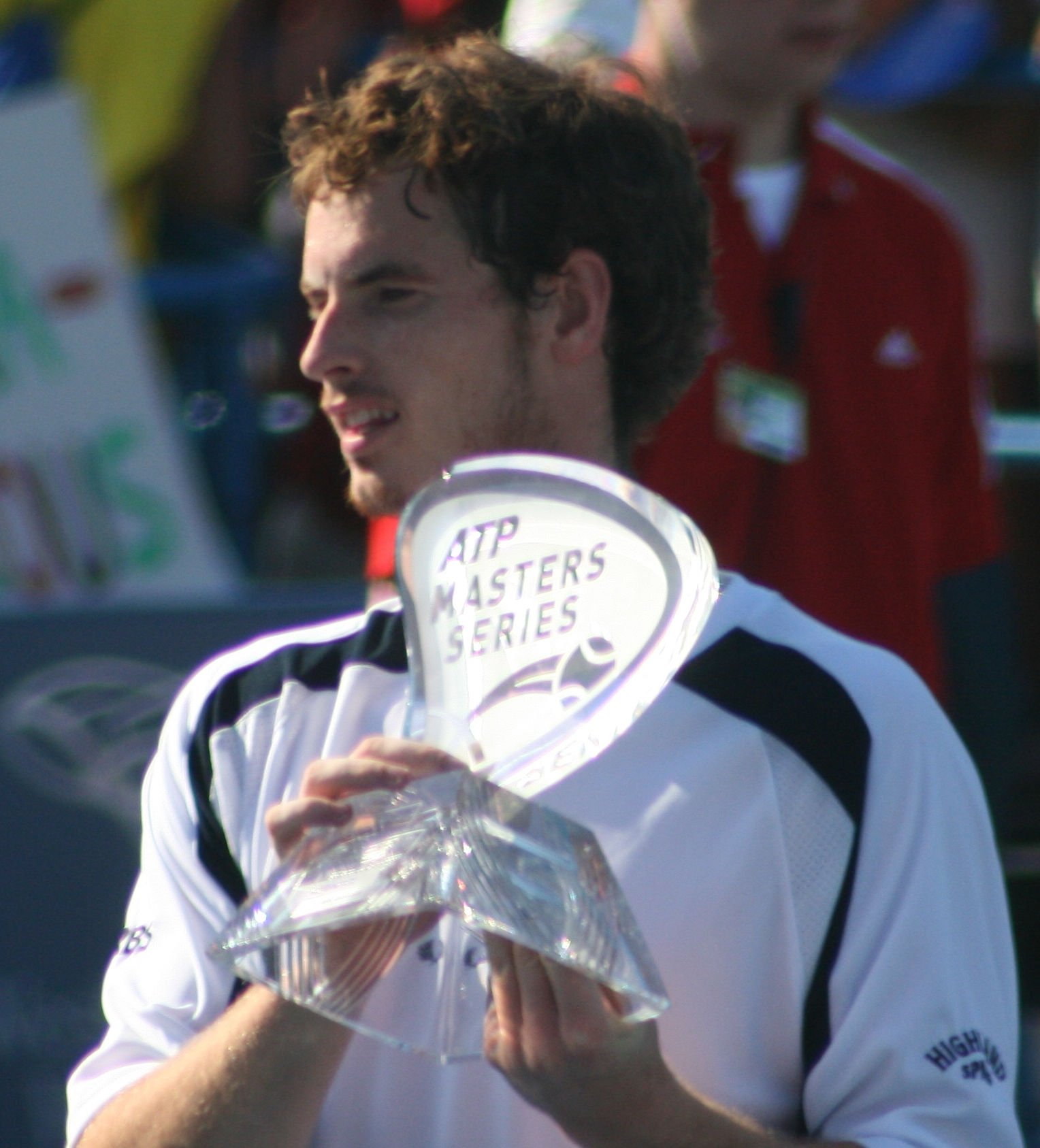 Andy Murray of Great Britain wins the Cincinnati Masters 2008.